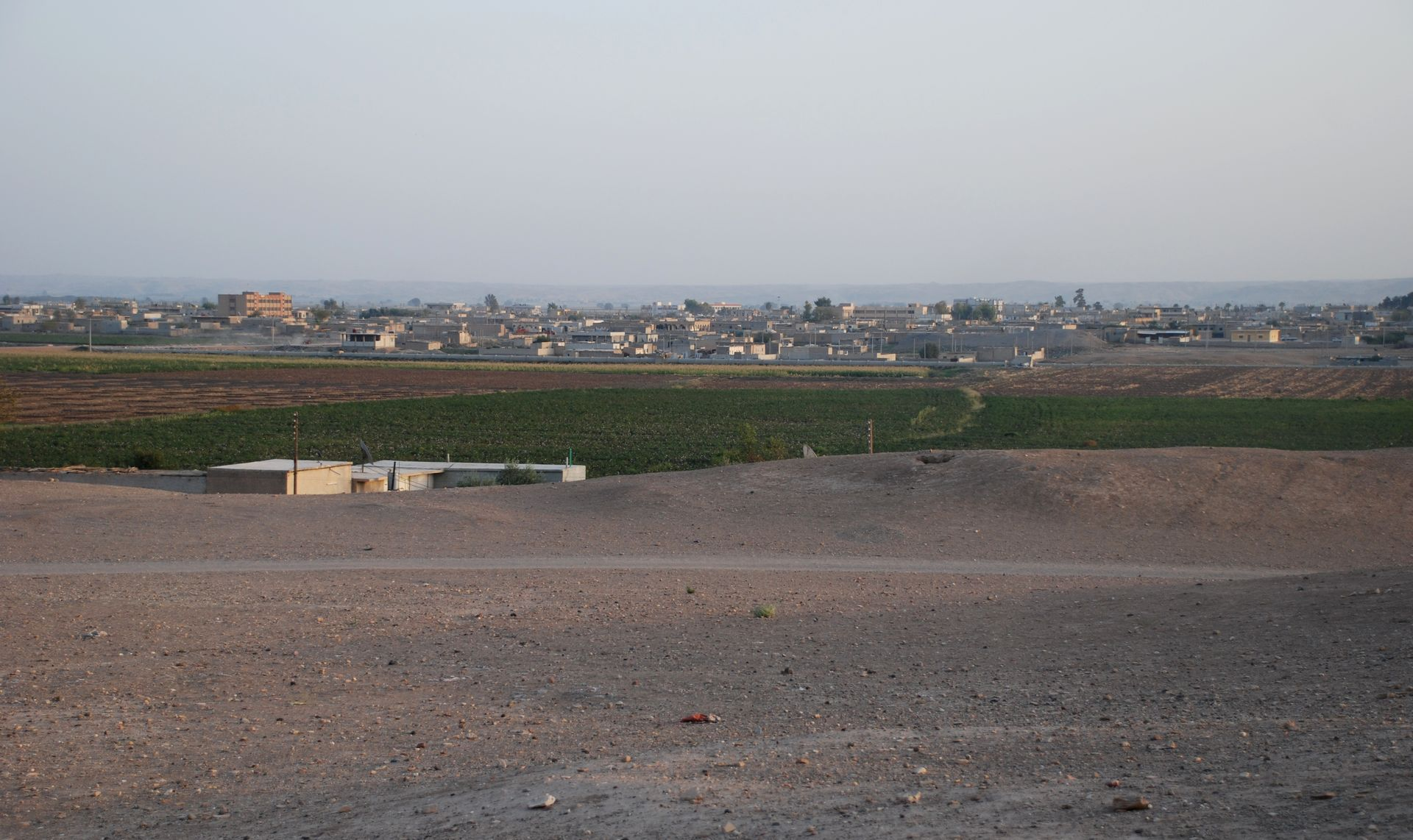 Ar-Raqqah, Syria, from Tell Bi'a towards south